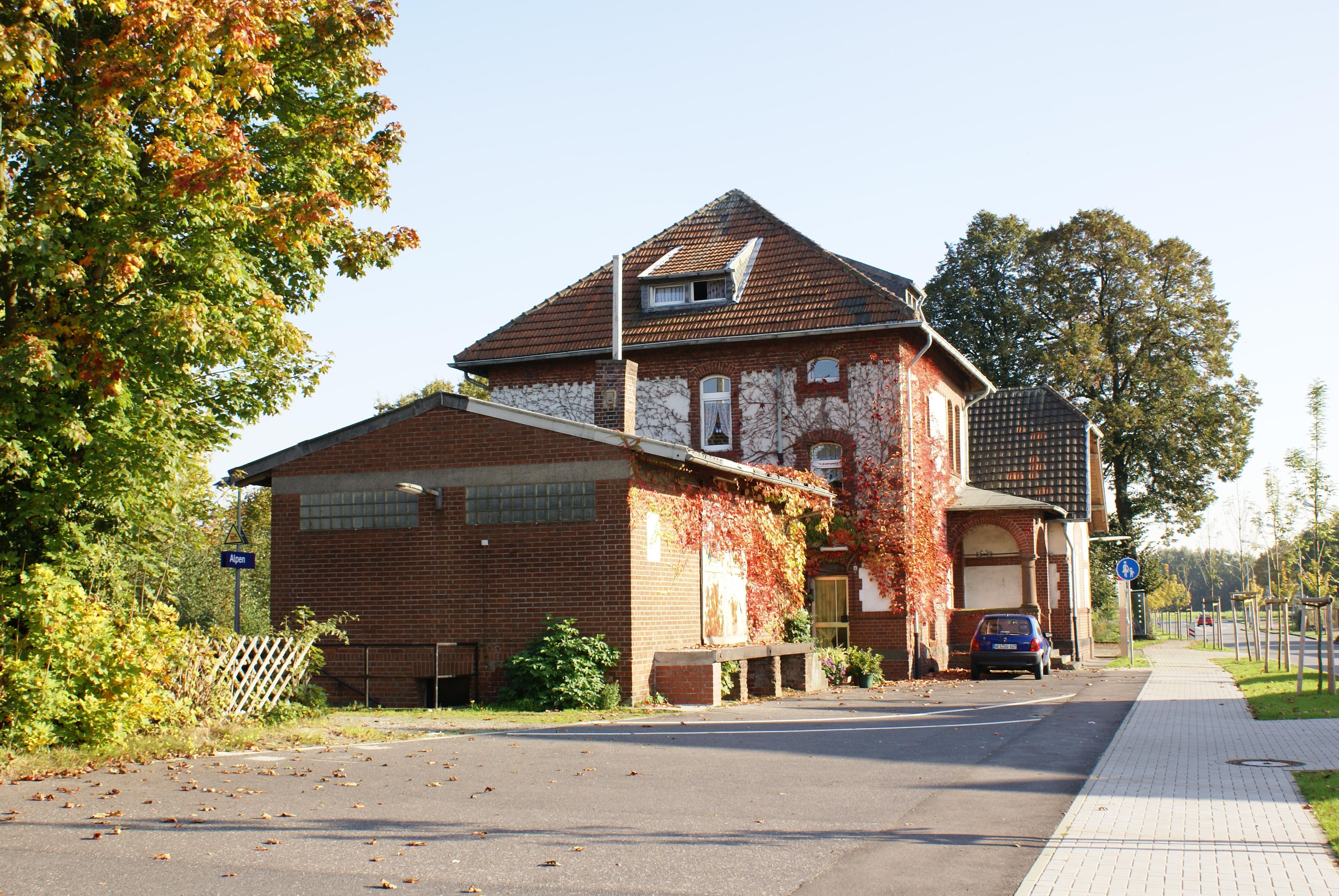 Alpen train station